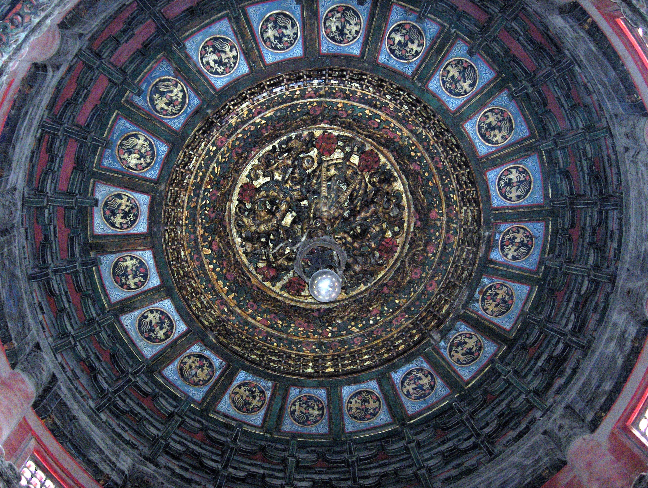 Decorated ceiling of a building in the Imperial Garden of the Forbidden City.